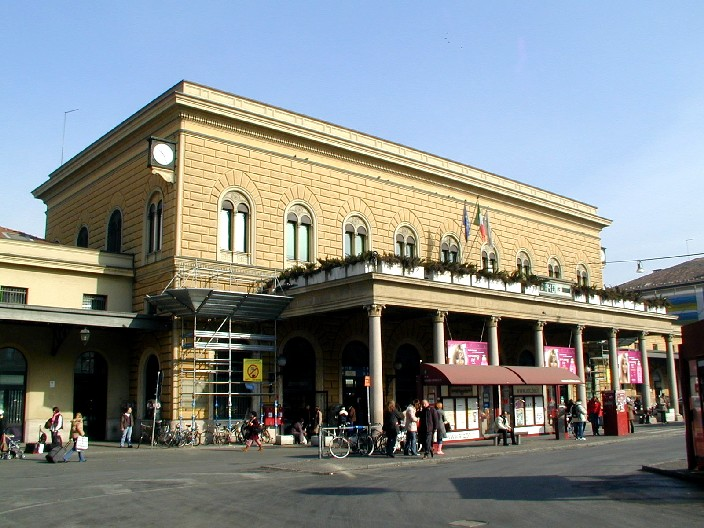 The entrance of Bologna Centrale railway station.